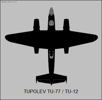 Plan-view silhouette of the Tupolev Tu-12 (Tupolev 77)